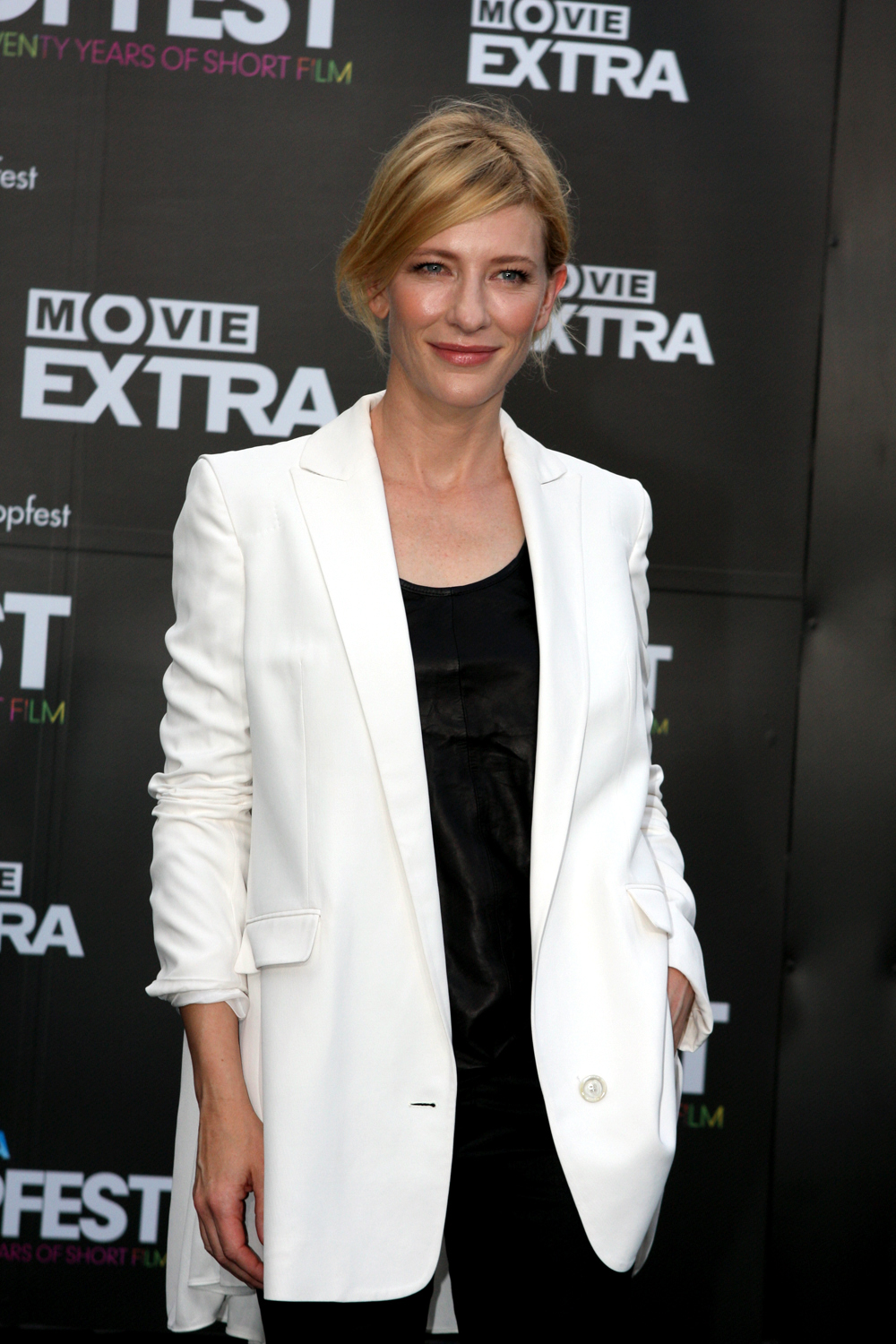 Cate Blanchett at the Tropfest Opens 2012 in Sydney, Australia